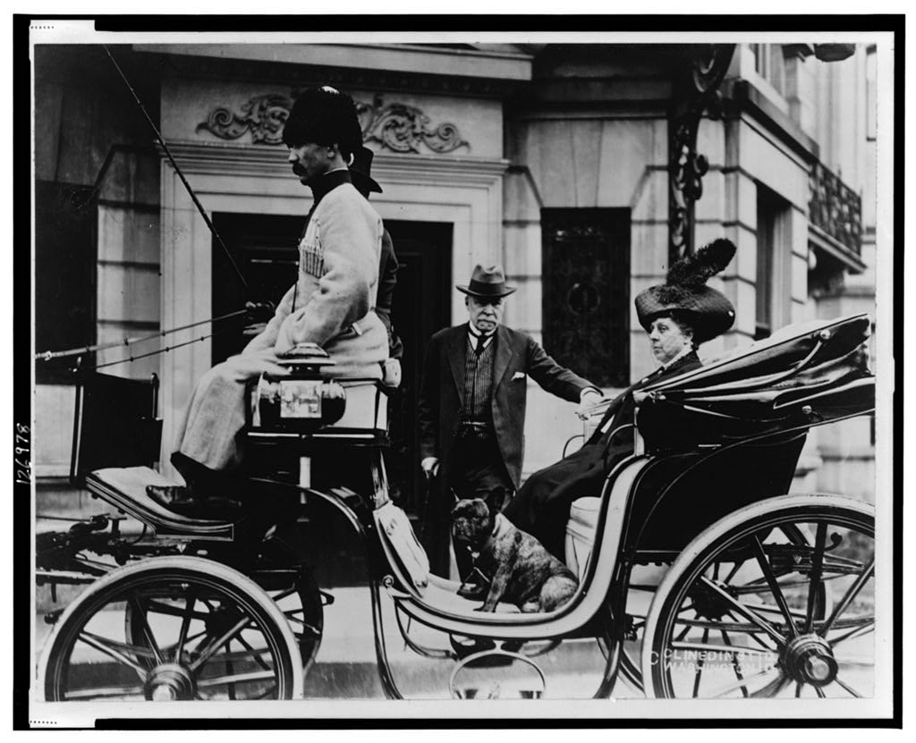 George Bakhmeteff standing alongside carriage on which his wife is seated, with dog